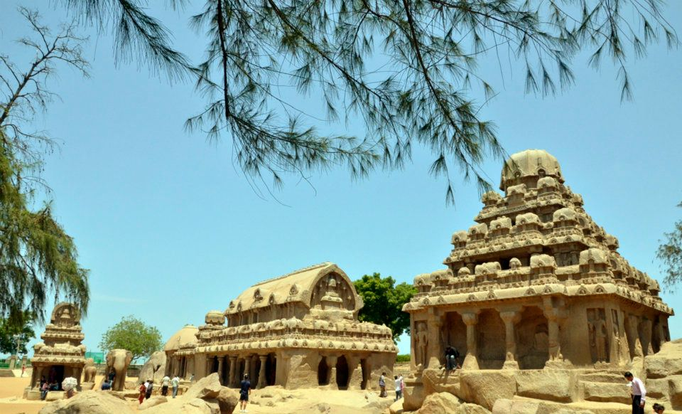 Arjuna’s Ratha